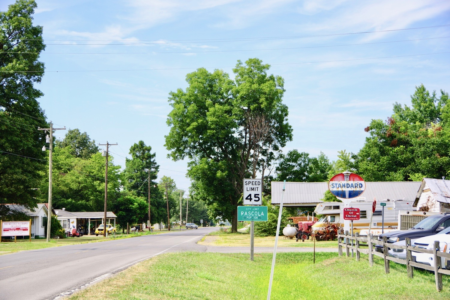 County Road B entering Pascola, Missouri, United States.